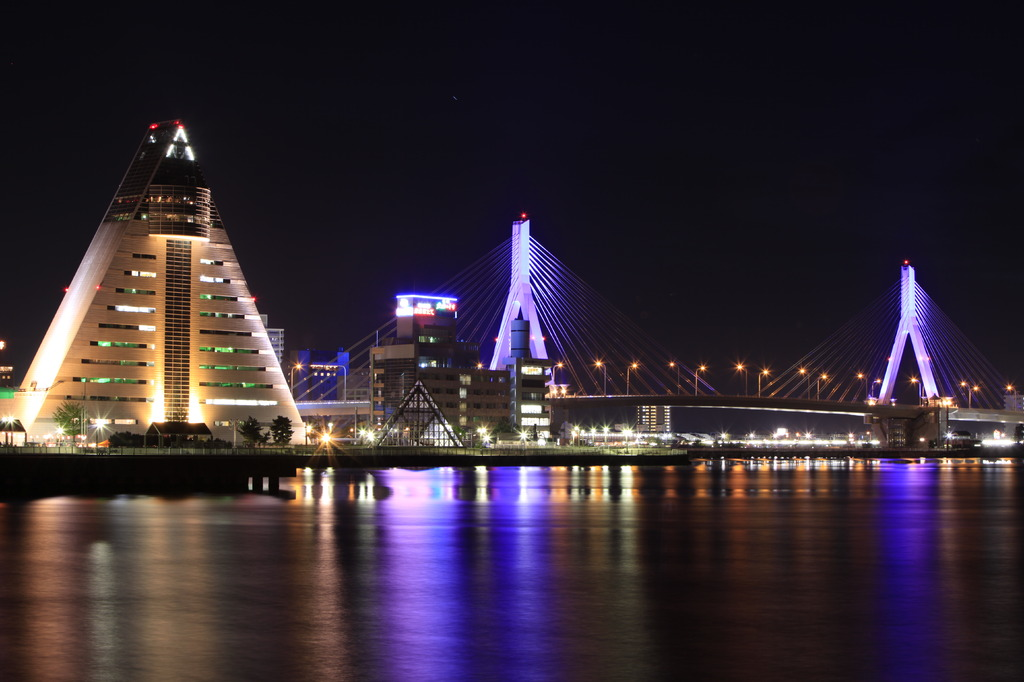 Aomori bay bridge and Aomori prefecture tourist center "ASPAM"